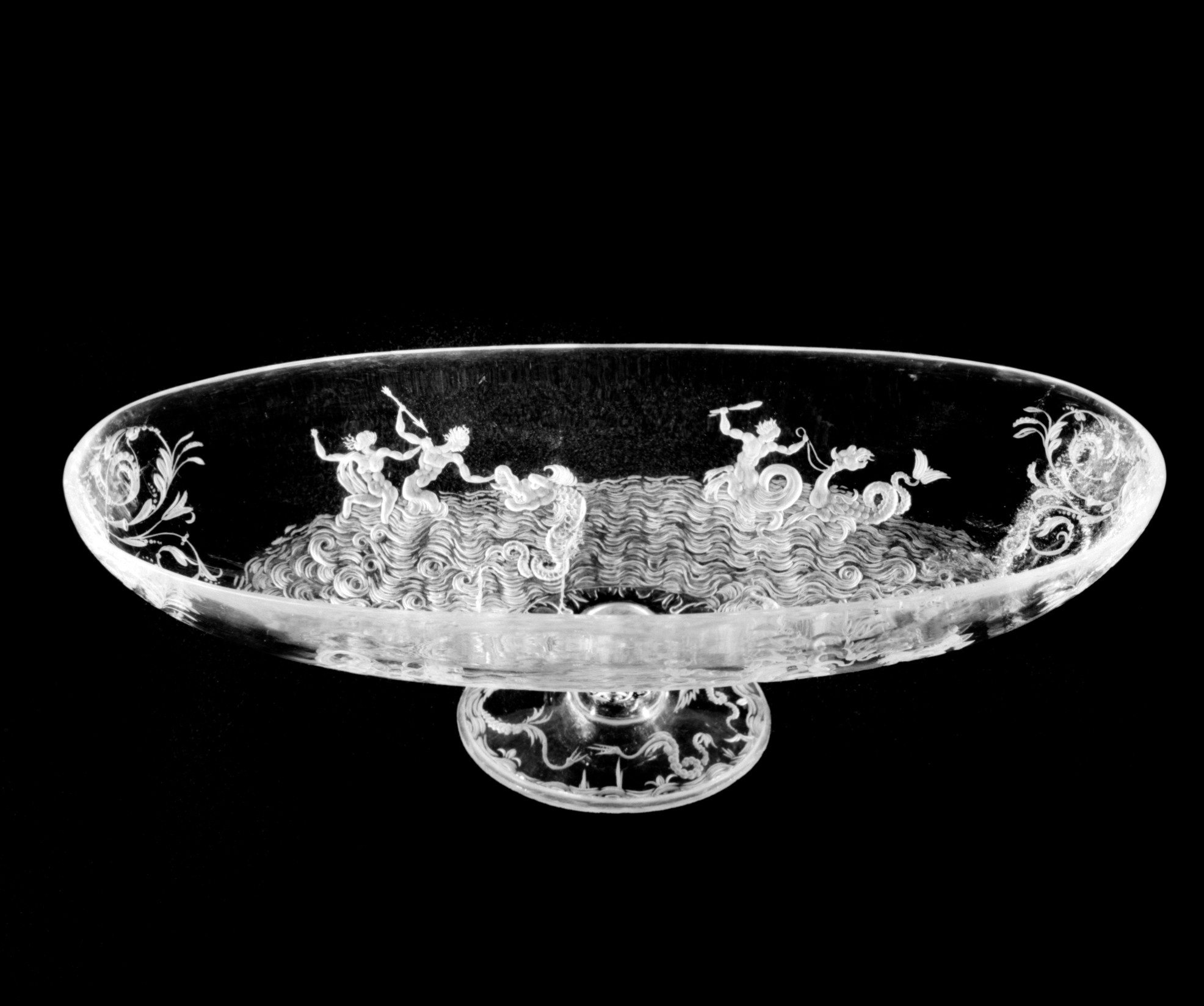 Italian, Milan; Cup; Natural Substances-Rock Crystal